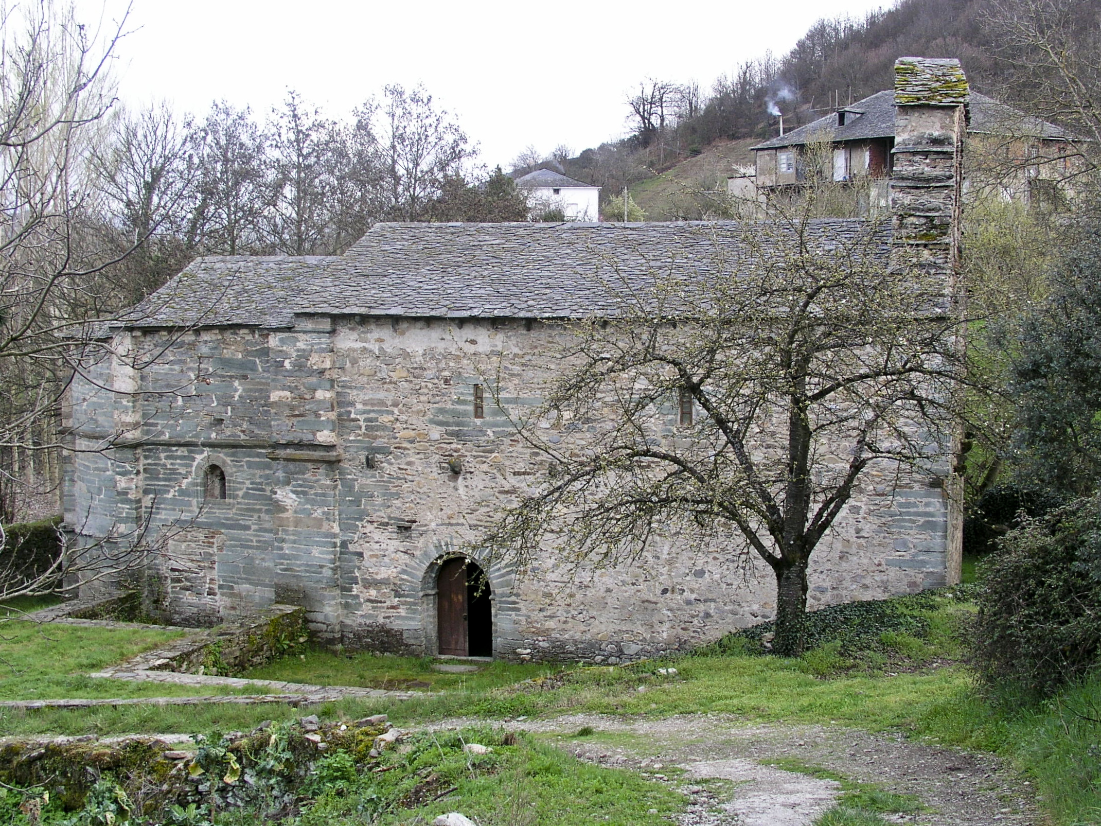 Iglesia San Juan, Villafranca de Bierzo, Spain. View